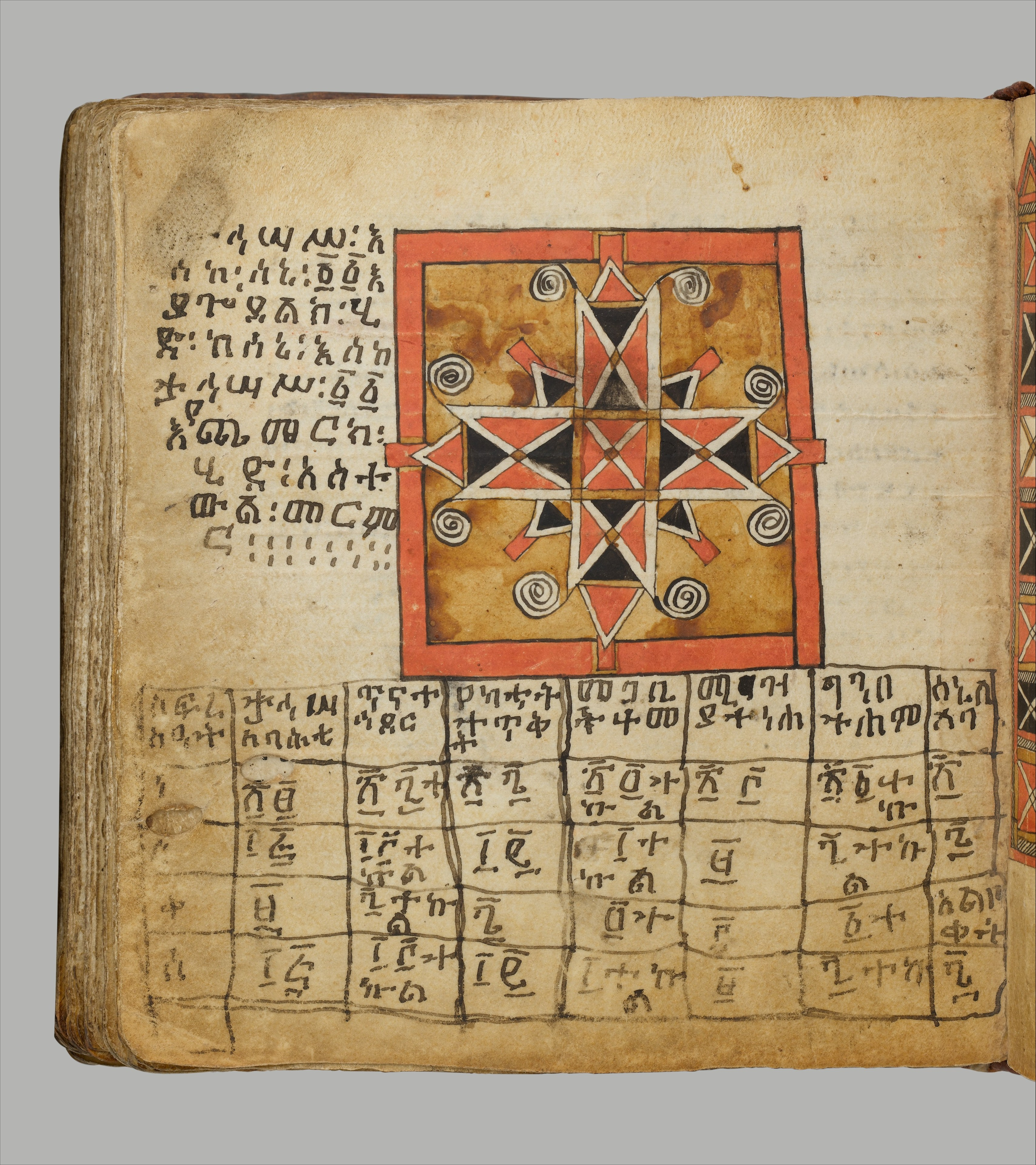 Amhara prayer book from Lasta region of Ethiopia